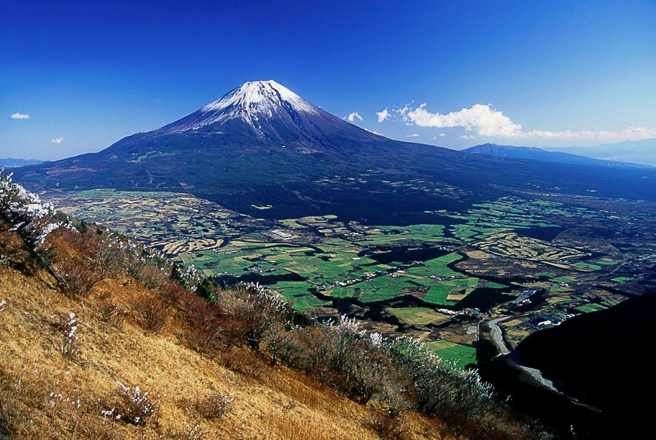 Mount Fuji and Asagiri Plateau seen from Mount Kenashi, Tenshi mountains, Japan.